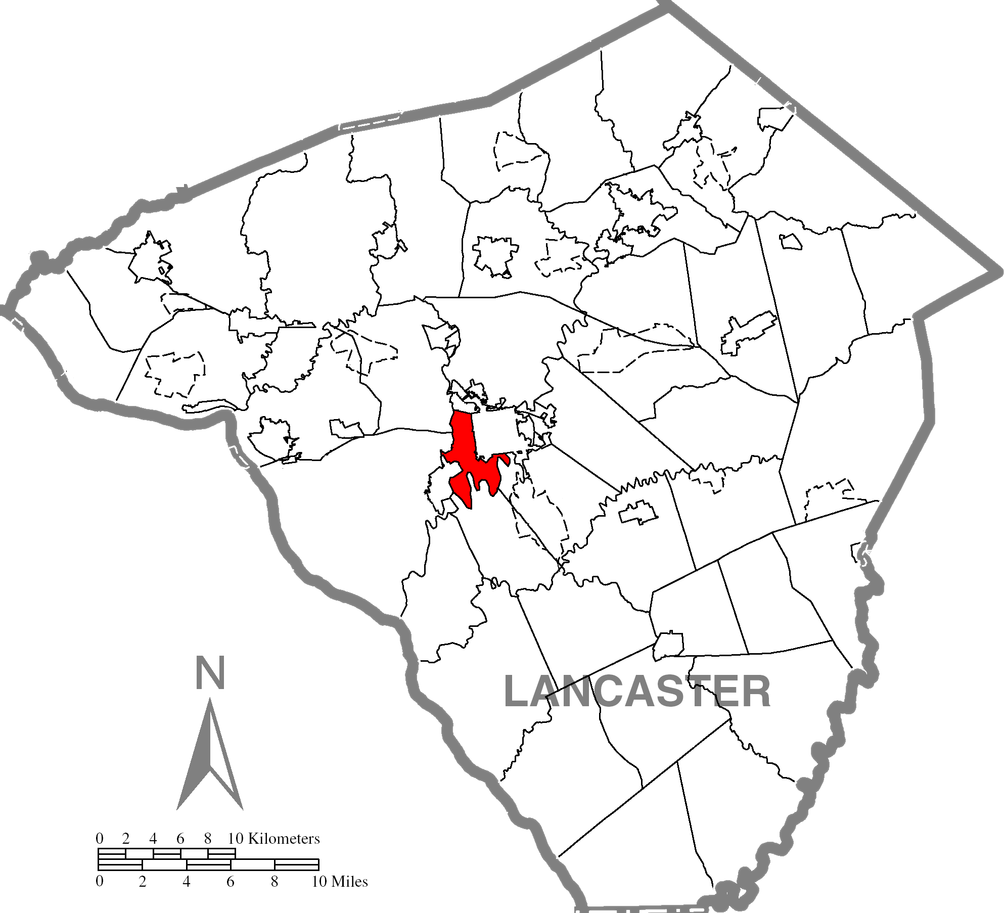 Highlighted Lancaster County map of Lancaster Township.